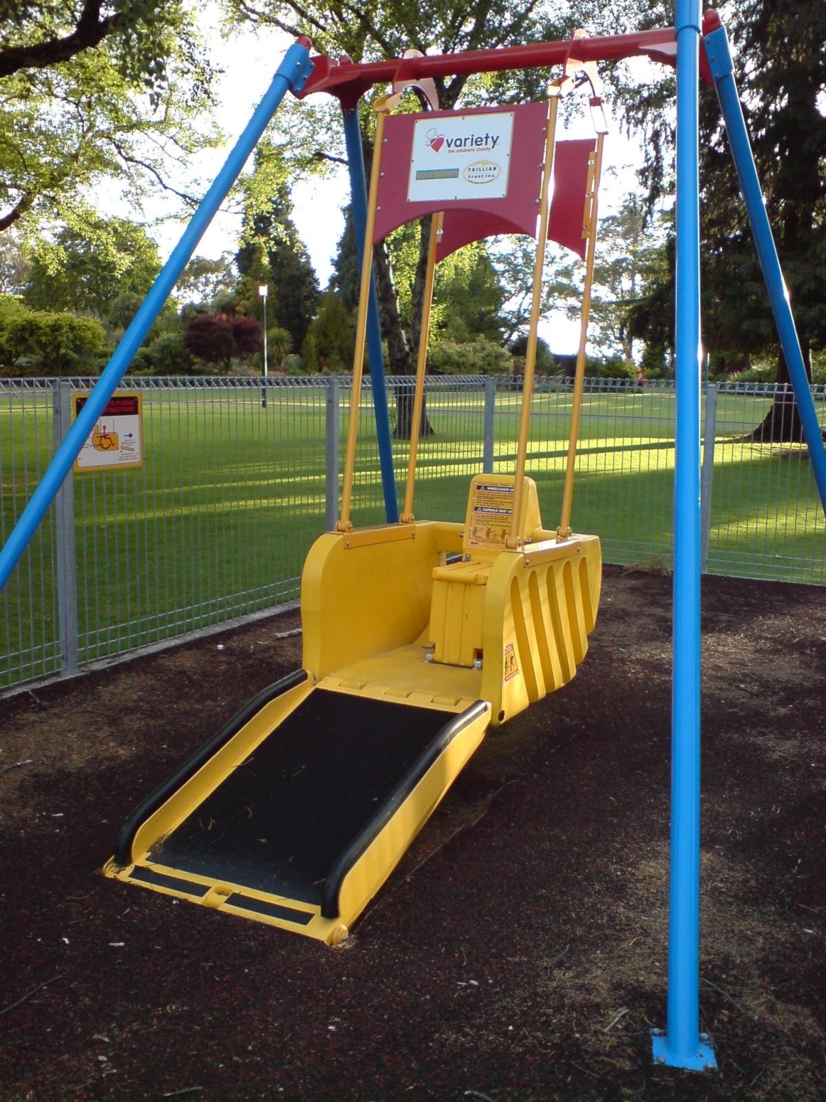 A wheelchair-enabled swing in the Taupo Domain, Taupo, Region of Waikato, New Zealand. This was actually a bit depressing. The whole swing was surrounded by a big metal fence (grey-coated, a good start), the whole procedure of getting a wheelchair (-bound person) into the swing seemed complicated, and finally, one in any case first had to go to the public toilet close by to get a key from the attendant. Talk about life being hard!